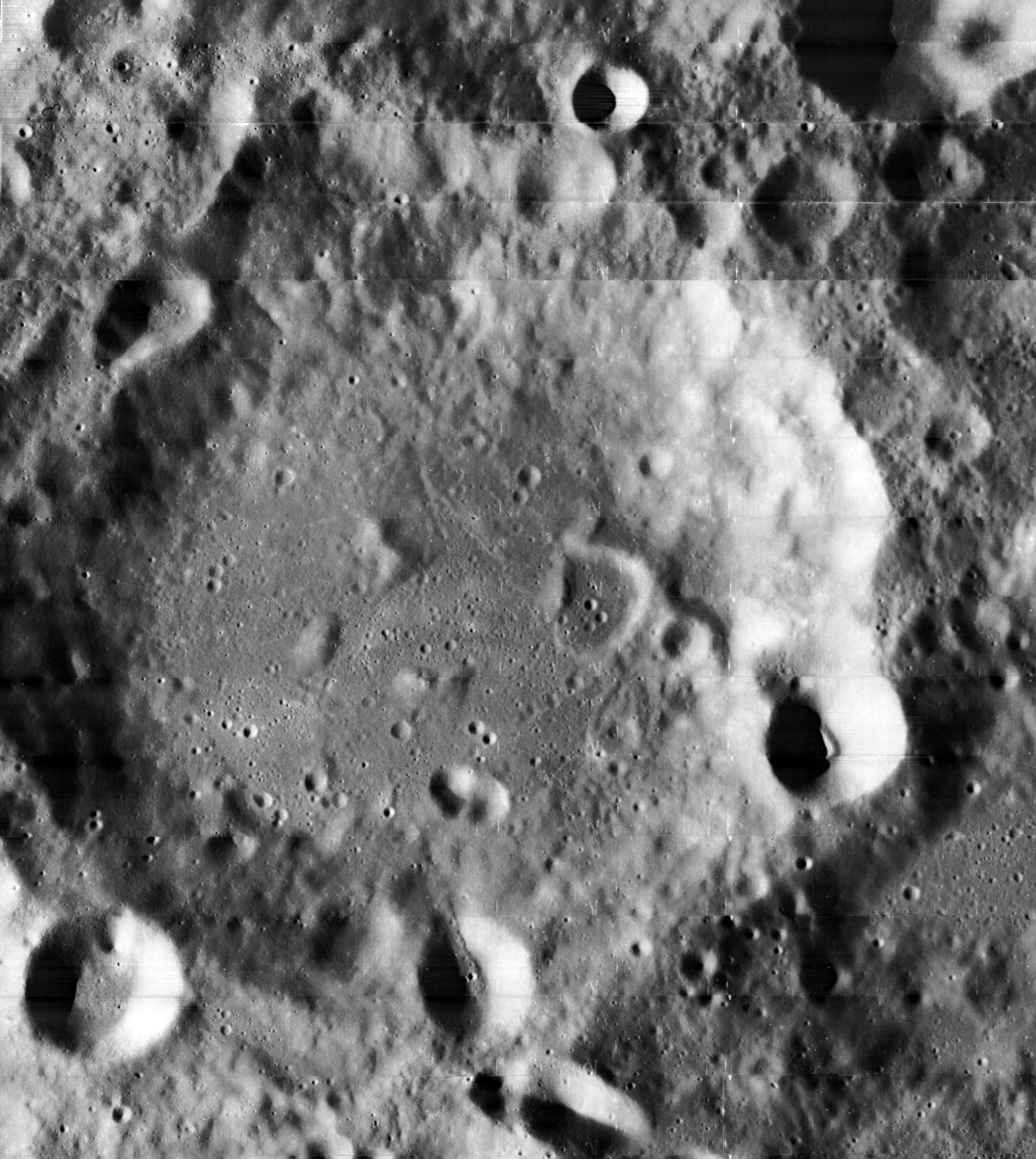 Coriolis, on the far side of the moon. North at top.